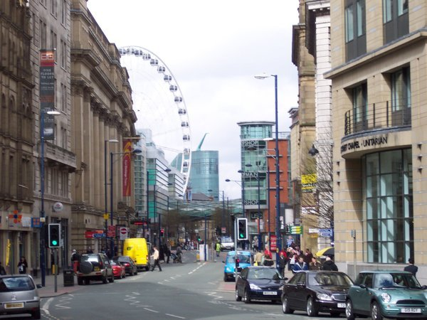 A shot of inner city Manchester with Urbis and the Ferris Wheel in the background.